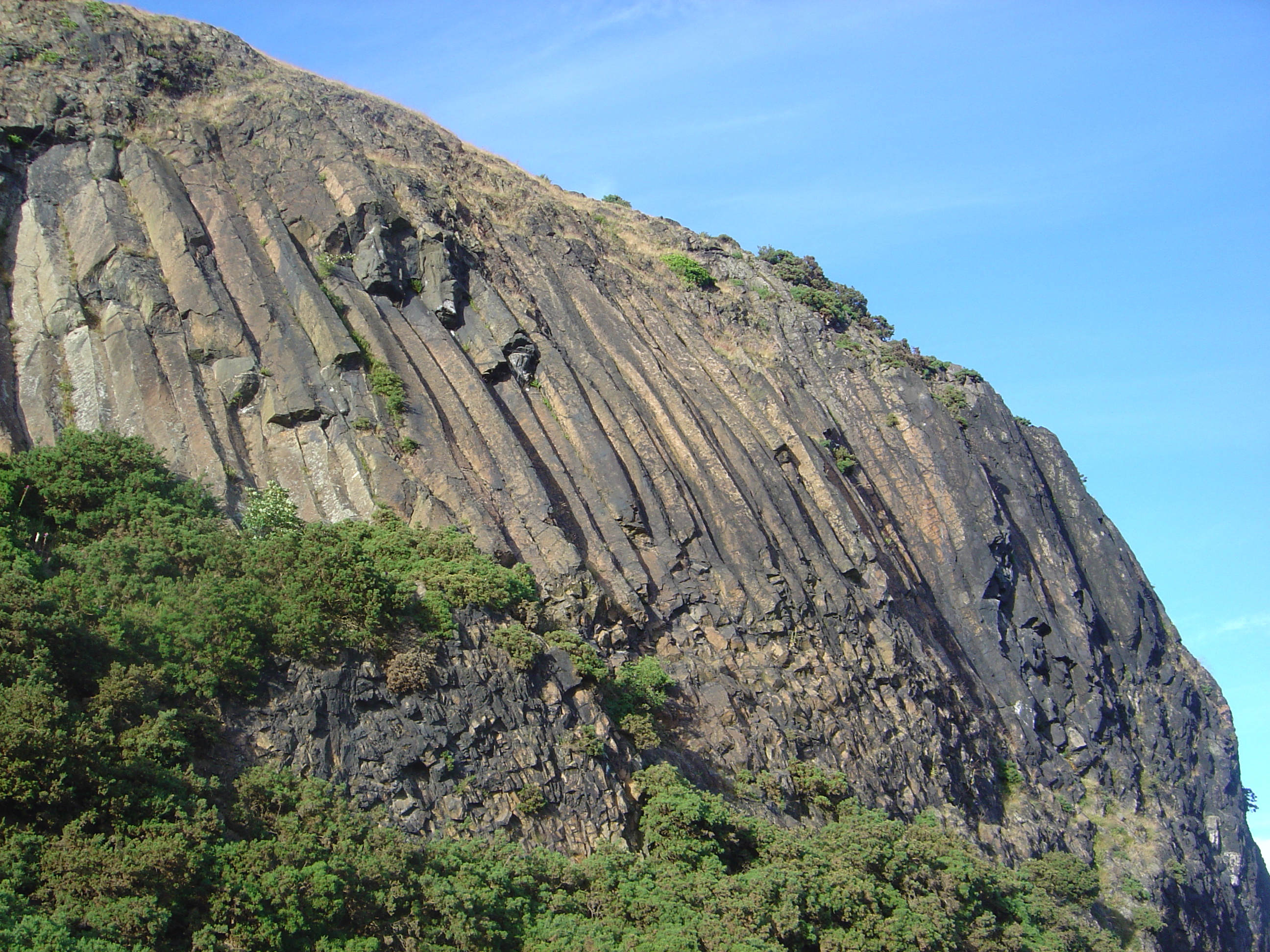 Holyrood Park, Samson's ribs basaltic prisms